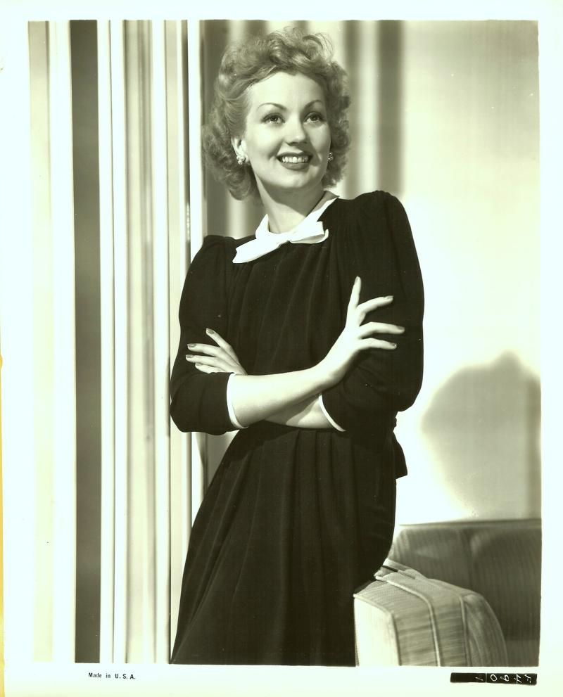 Promotion photo for the film Hotel for Women (1939) (1939) featuring Ann Sothern Photo Detail: Hotel For Women, Directed by Gregory Ratoff Year: 1939 Copyright info at bottom border: No Press statement on reverse or attached: title/name/venue Photographer: unknown